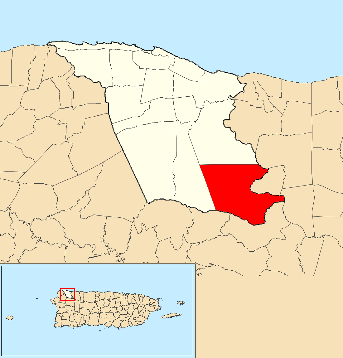 Planas, Isabela, Puerto Rico locator map